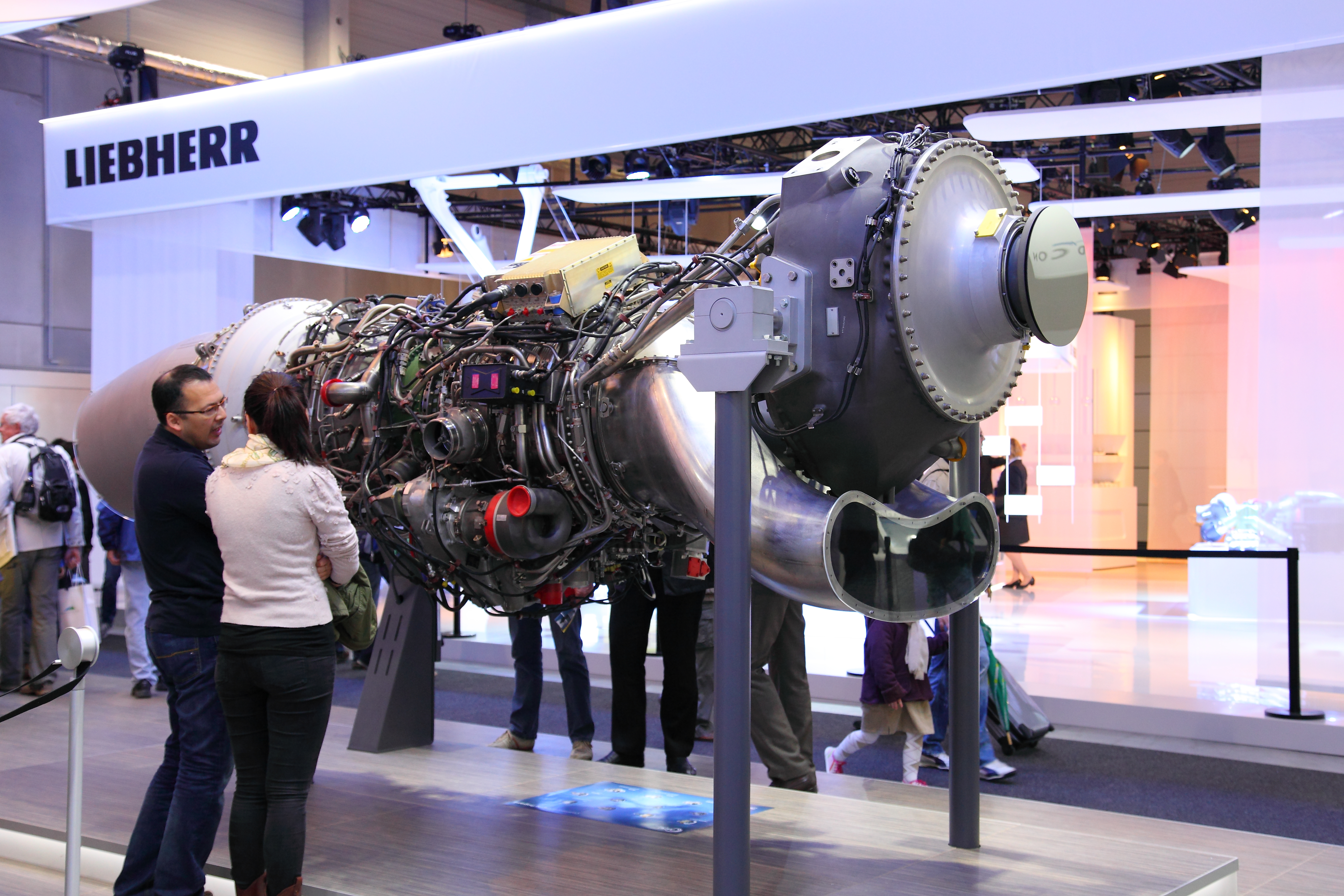 ILA Berlin Air Show 2012 ; TP400-D6: This advanced turboprop engine will power the A400M transport aircraft. It is jointly developed by ITP, MTU Aero Engines, Rolls Royce and Snecma. The partners have launched a joint company, Europrop International (EPI), to develope, manufacture and support the TP400-D6. The TP400-D6 powers the A400M military transport which successfully completed it's first flight on December 11 2009 in Seville, Spain. MTU is responsible for the TP400-D6's intermediate-pressure compressor, intermediate-pressure turbine and intermediate-pressure shaft and has a stake in the engine control unit. MTU Aero Engines in Munich is responsible for final assembly of all TP400-D6's built in Europe, and acceptance testing is performed at MTU Maintenance Berlin-Brandenburg.